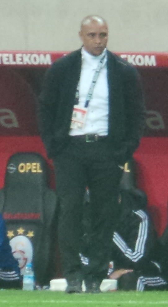 Carlos with Sivasspor against G.S.